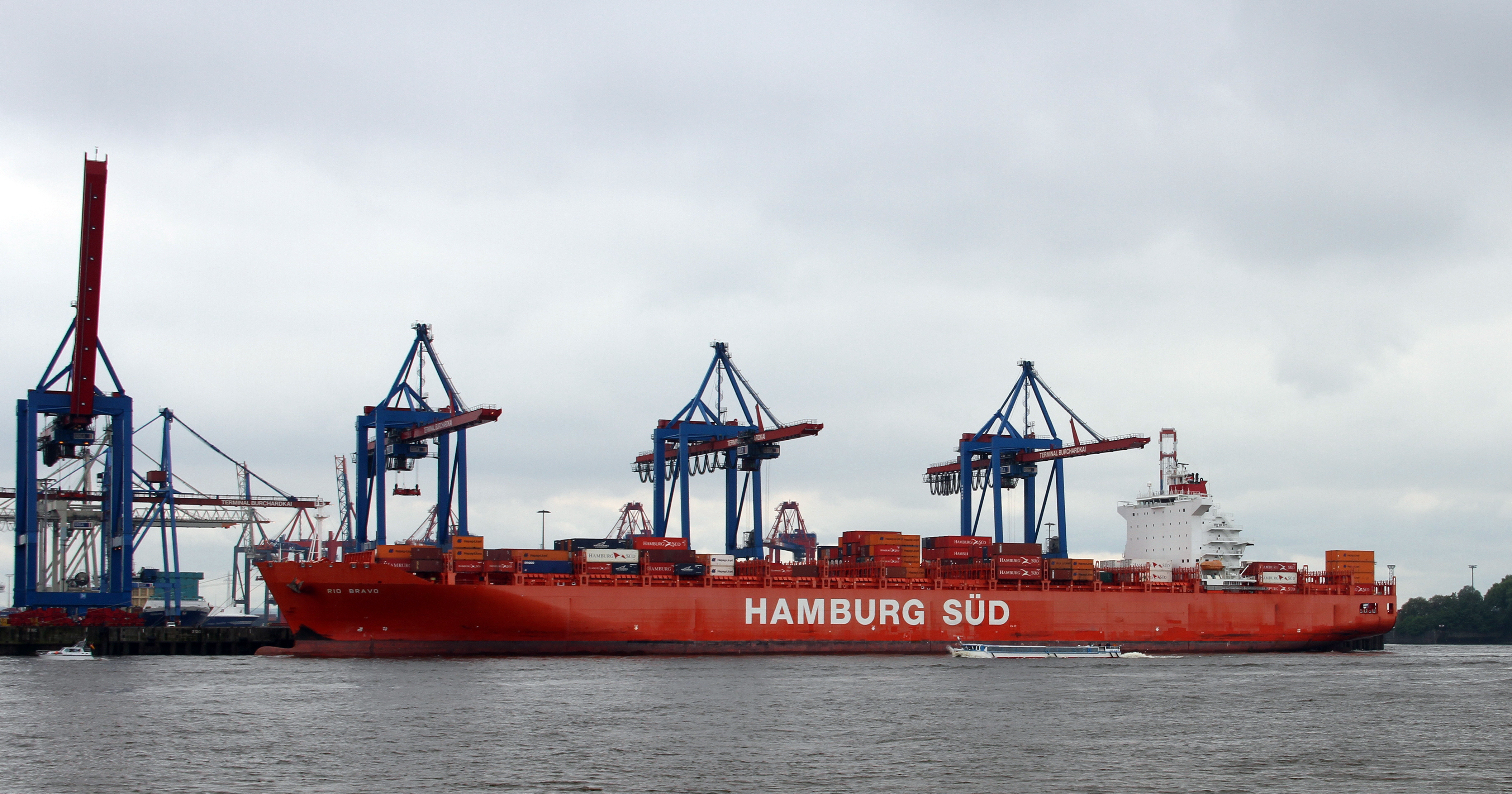 Container ship Rio Bravo, Container Terminal Burchardkai.